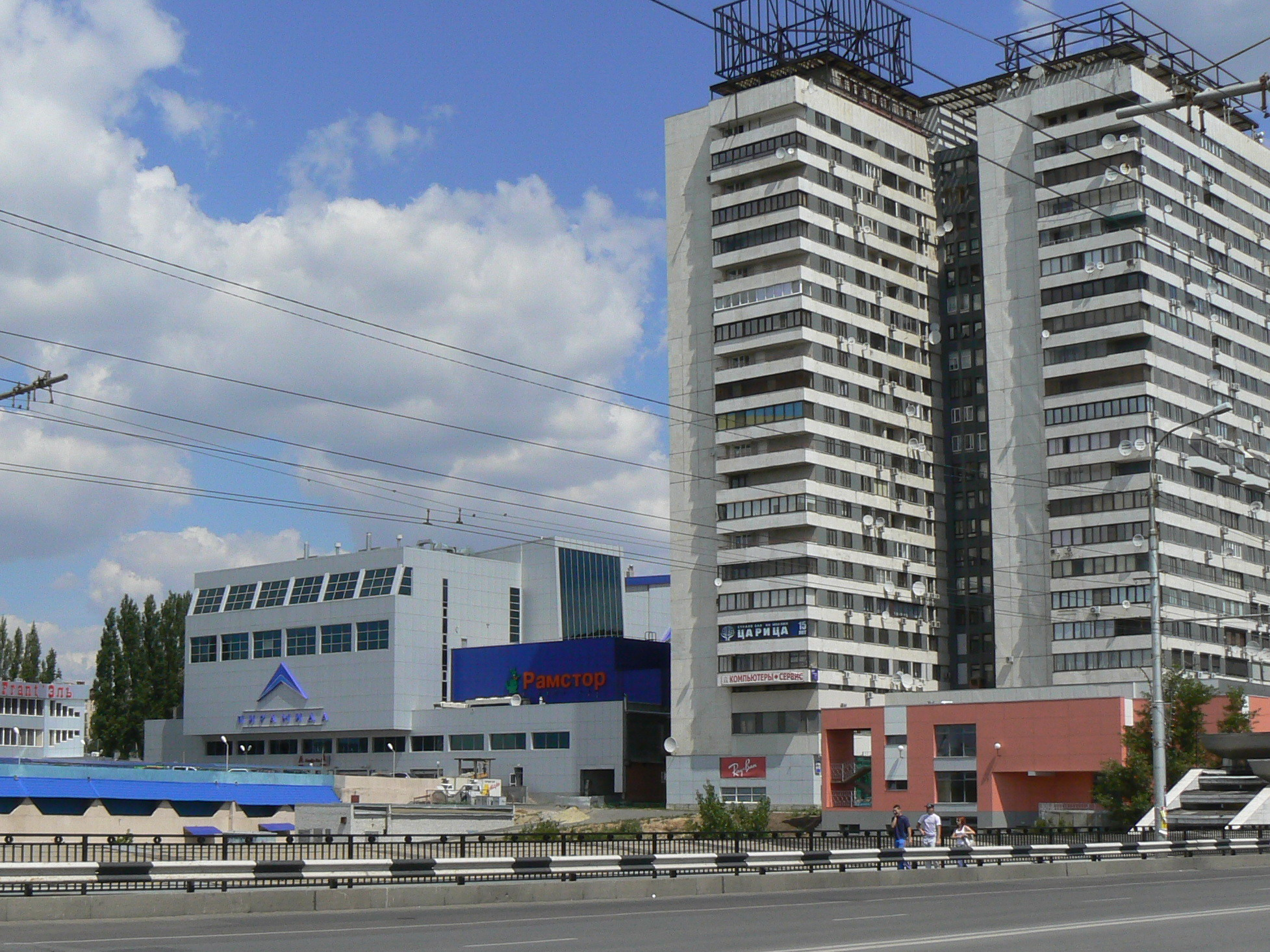 "Pyramide" mall and apartments building in the central district of Volgograd